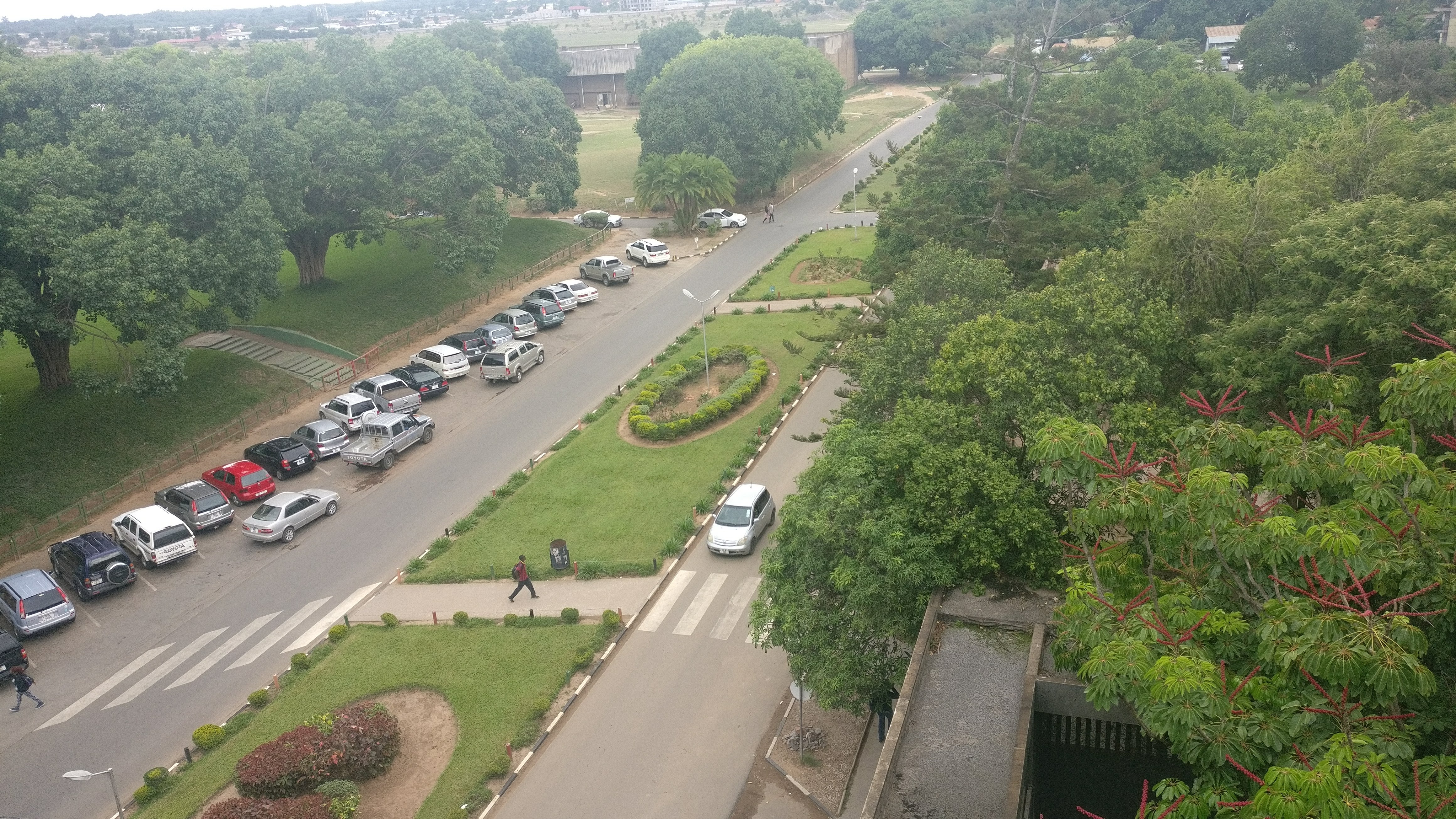 Arial view of the University of Zambia Sports Centre and Clinic, viewed from the School of Education building.